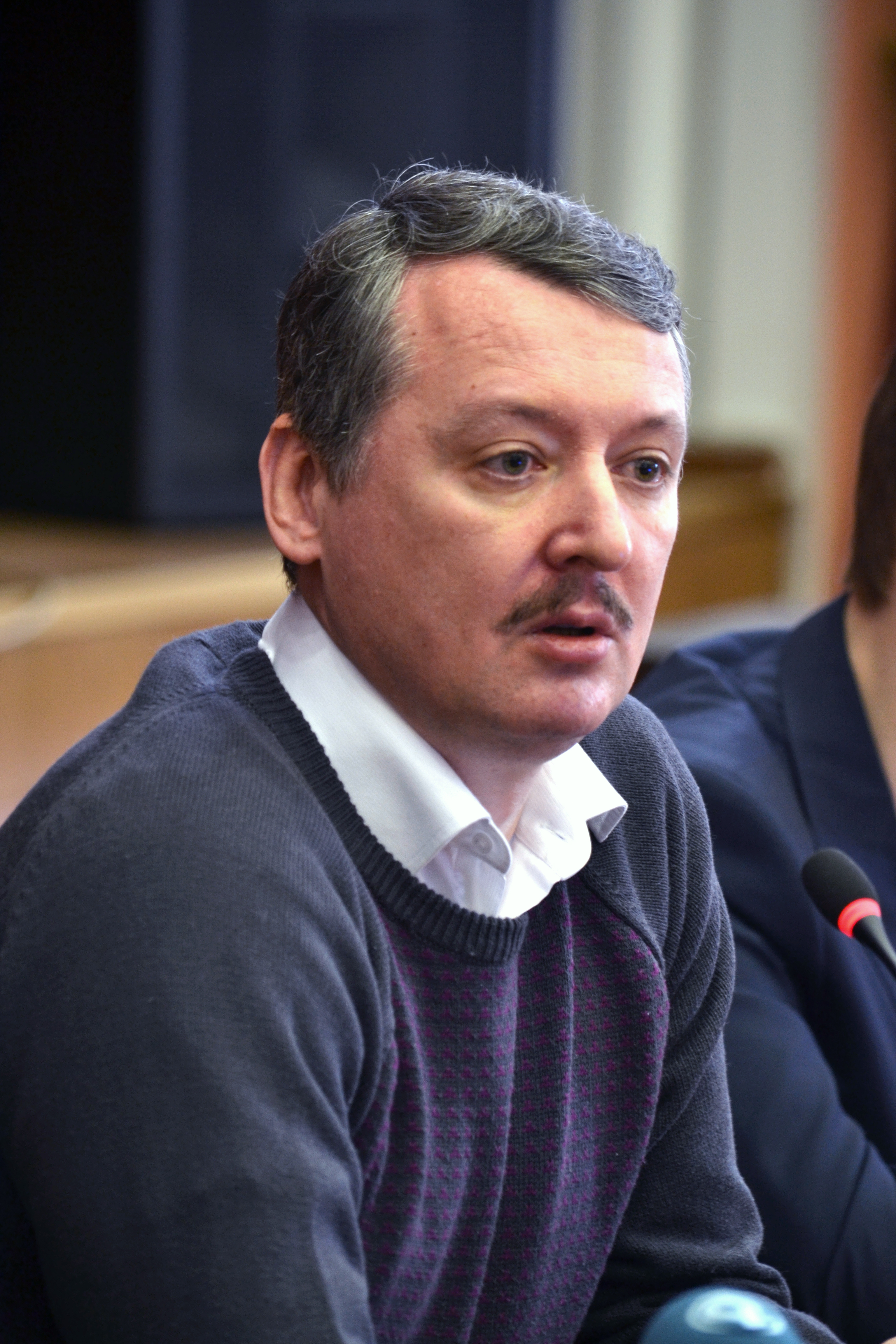 Igor Strelkov at the press conference in the Ural State Mining University, Yekaterinburg, March 14, 2015